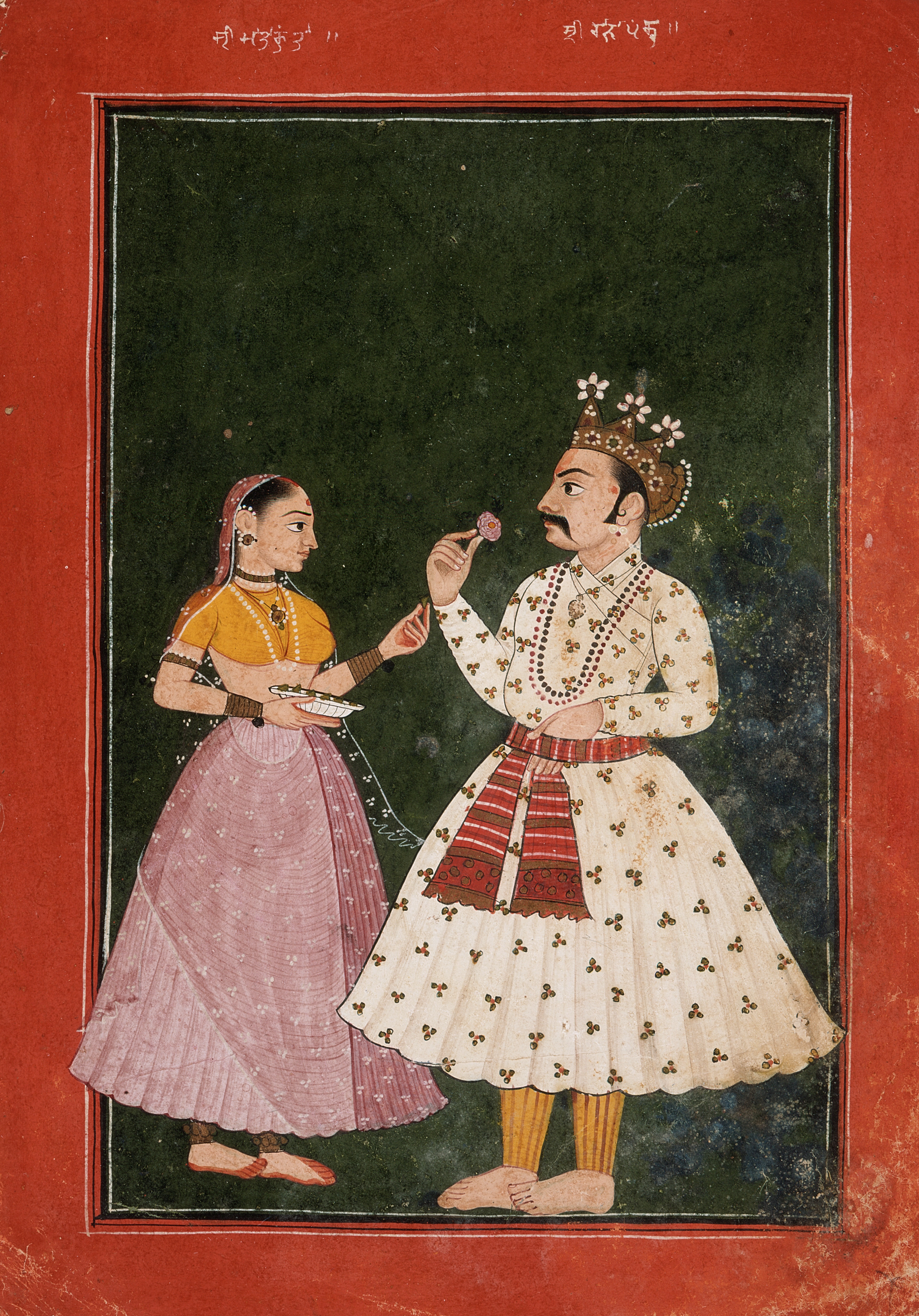 India, Jammu and Kashmir, Mankot, circa 1690 Drawings; watercolors Opaque watercolor and gold on paper From the Nasli and Alice Heeramaneck Collection, Museum Associates Purchase (M.69.13.6) South and Southeast Asian Art